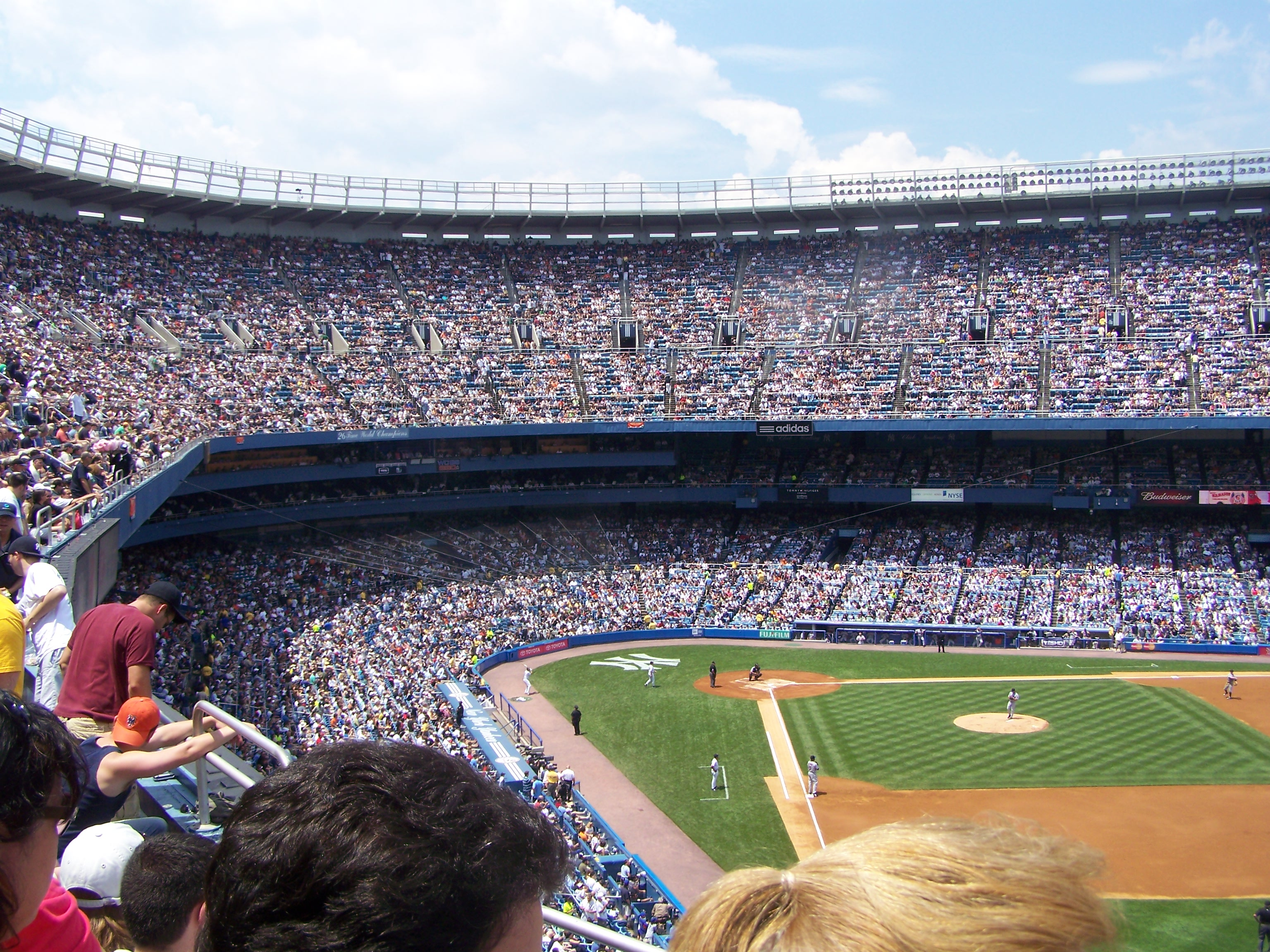 KO Pix 01:20, 16 May 2008 . . KOknockout920 . . 3,072×2,304 (2.11 MB)